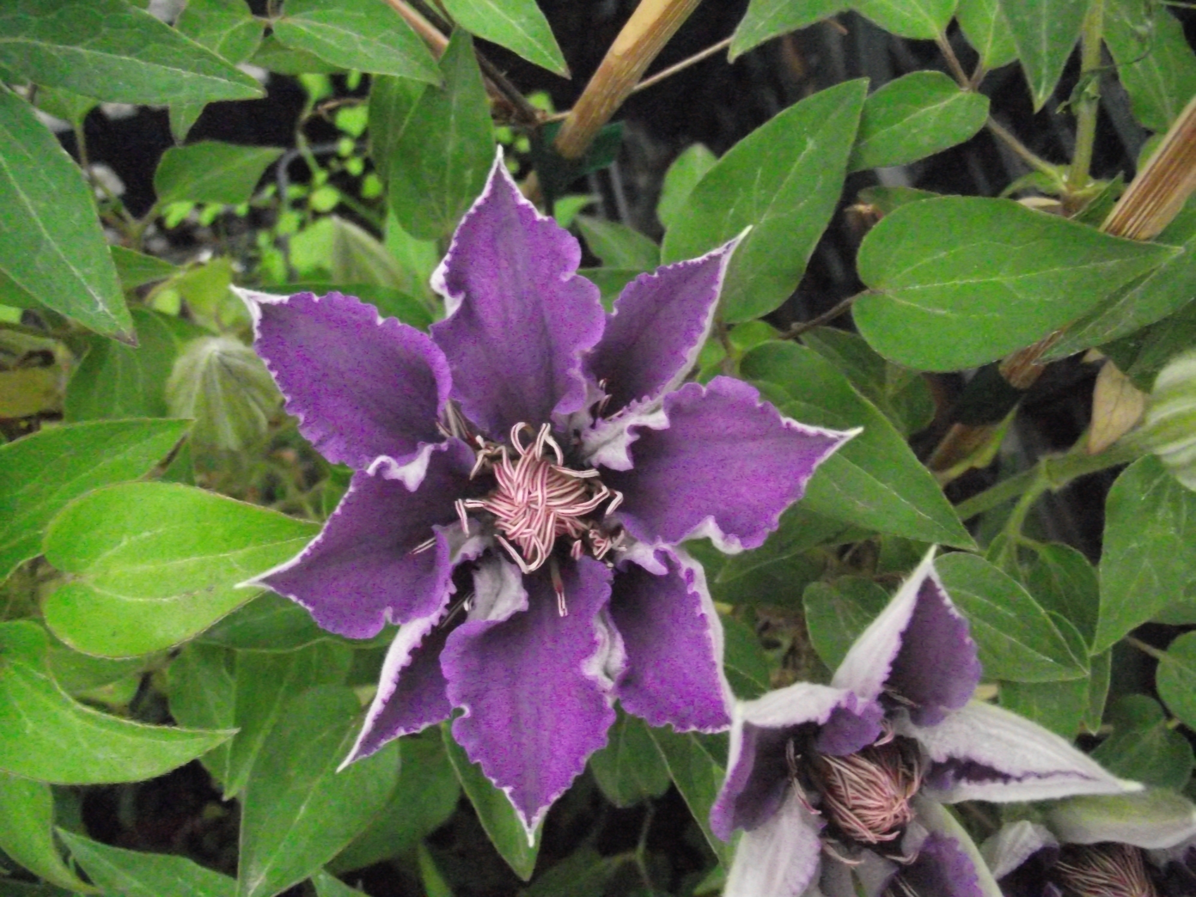 Clematis patens Bijou 'Evipo030'